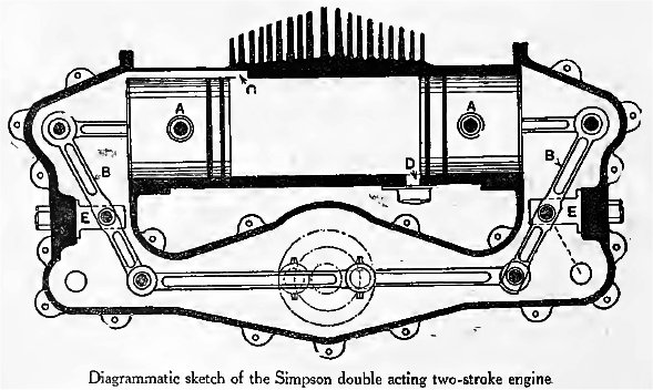 Diagrammatic sketch of the Simpson double acting two stroke-engine. This early example of an opposed piston engine using a single crankshaft connected to the pistons via levers appeared in The Motor Cycle magazine in August 1914. The article is not clear if Simpson is the name of the company working on it or the type of engine. It was the subject of experimental work at the Eagle Works, Cable Street, Blackburn, UK.